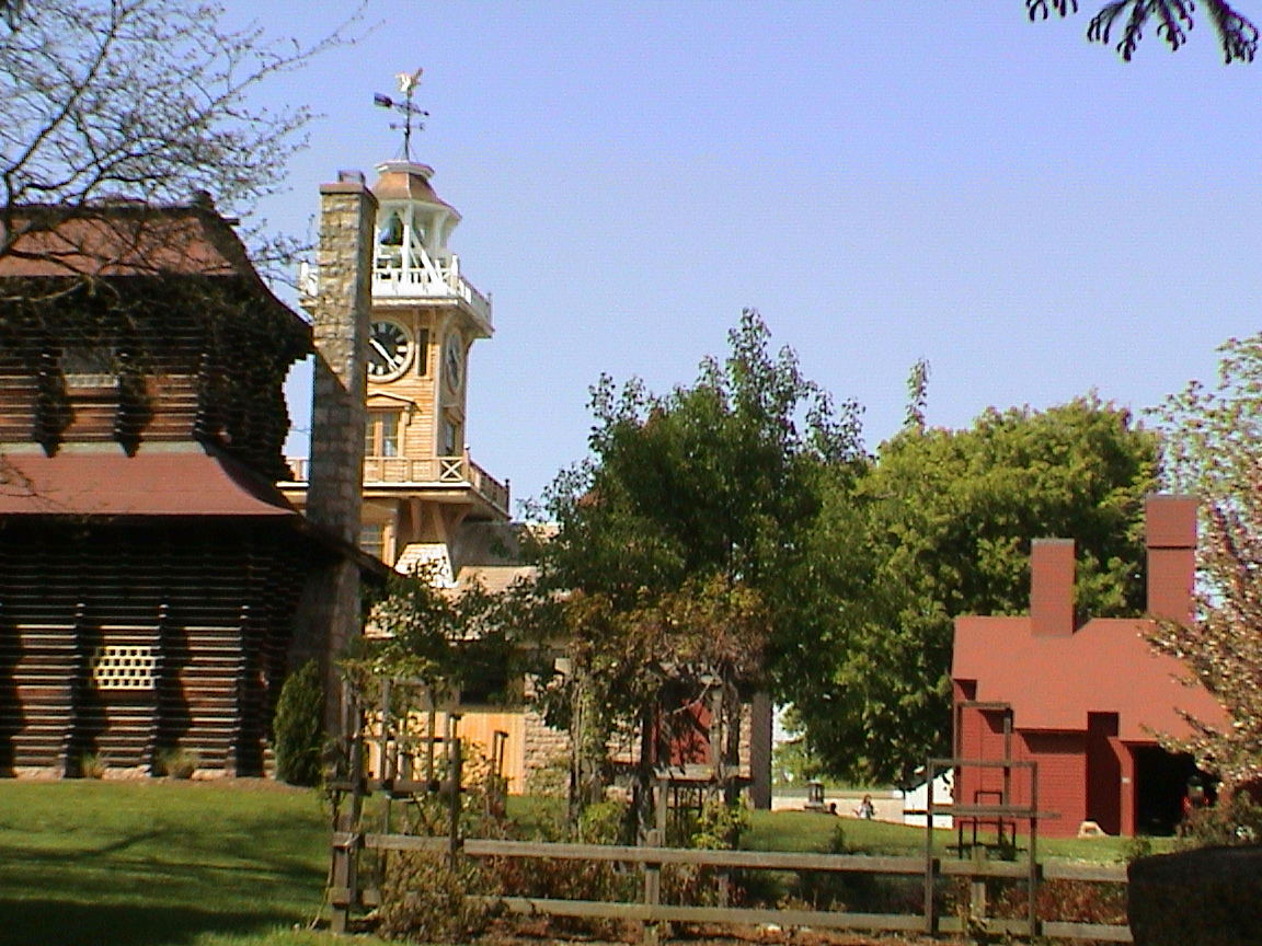 Boothe Memorial Park, Stratford, CT. View of Technocratic Cathedral, Clock Tower and Black Smith shop